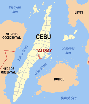 Map of Cebu showing the location of Talisay